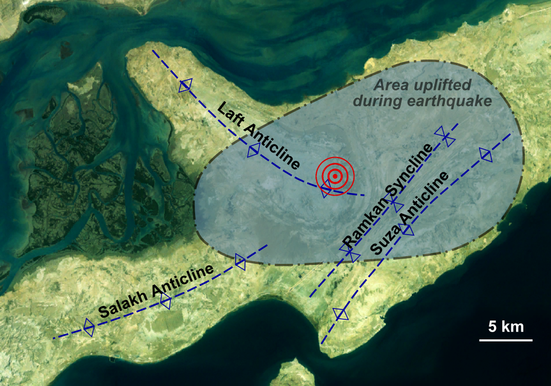 Main fold structures on Qeshm island in southern Iran, showing epicentre of the 2005 earthquake and the area of coseismic uplift - base is a screen capture from NasaWorldWind - other information is from Nissen et al. 2007